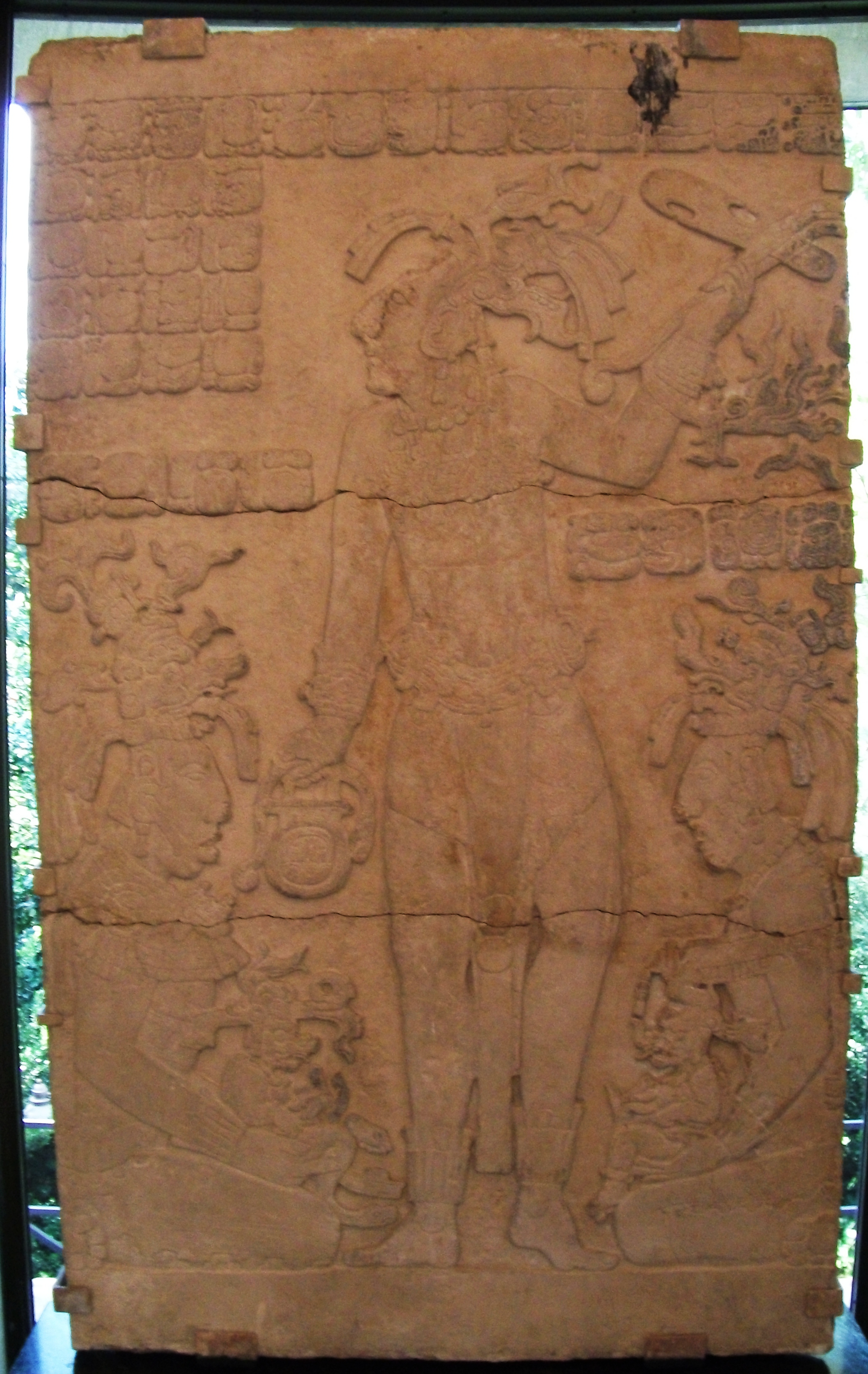 Pre-Columbian collection, Dumbarton Oaks. See bottom of page for museum caption info